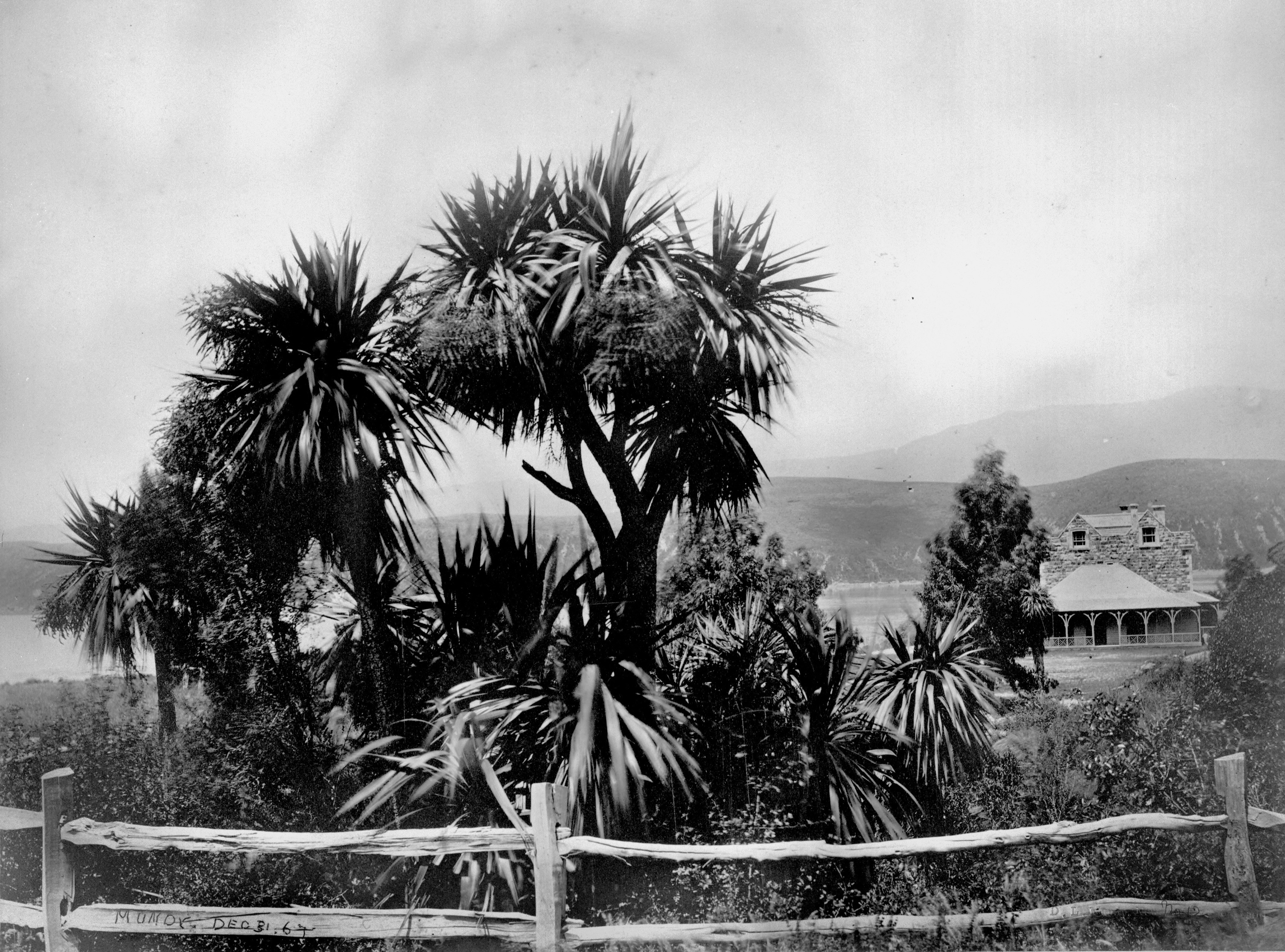 Cabbage trees and Thomas Henry Potts' house Ohinetahi at Governors Bay, taken 1867 by Daniel Louis Mundy.